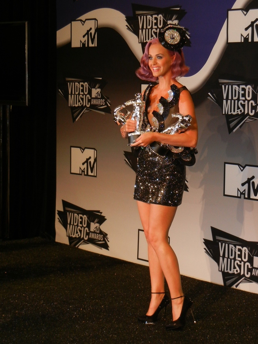 Katy Perry at MTV Video Music Awards 2011.